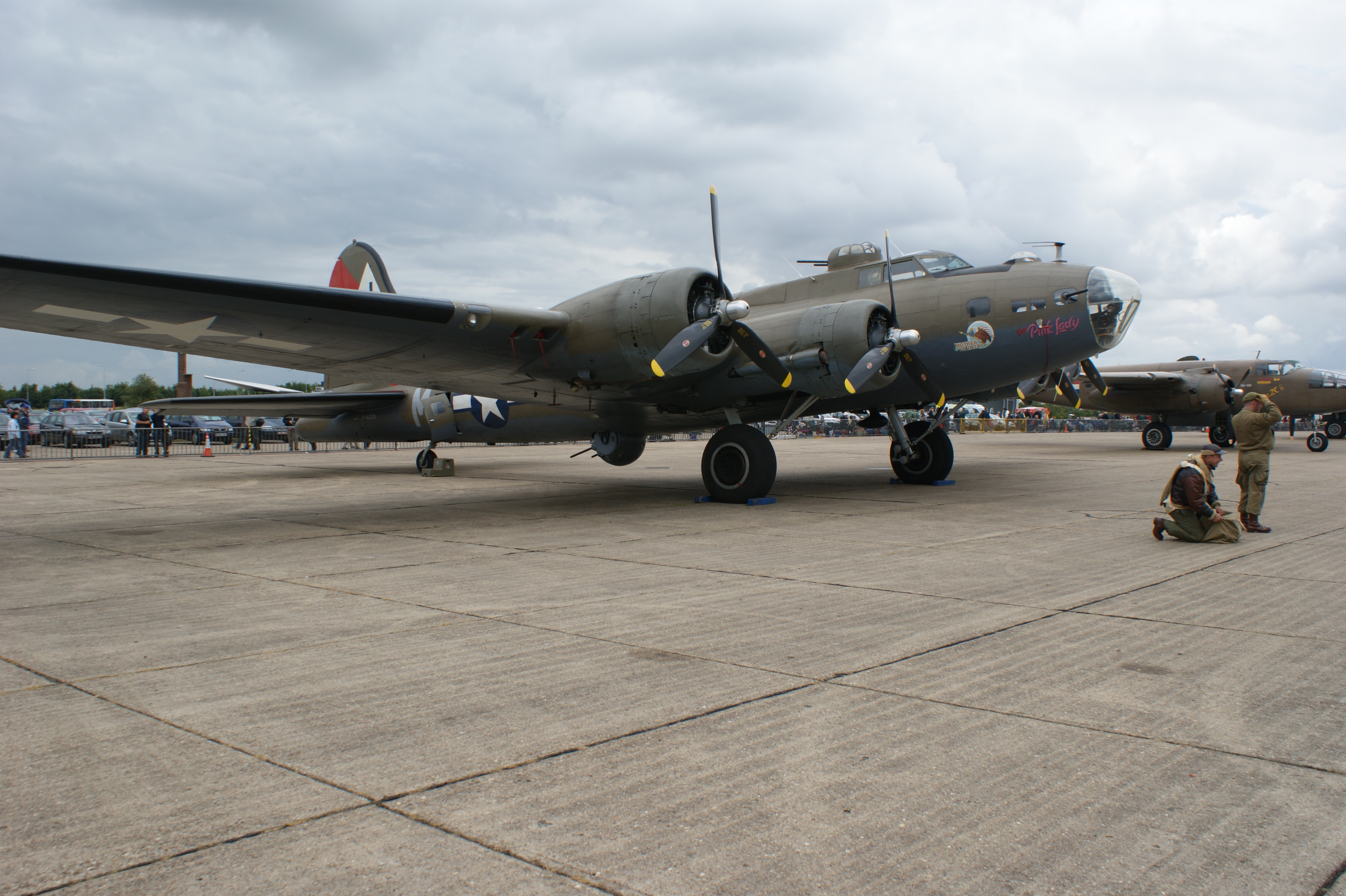 "The Pink Lady" - "The Flying Legends" air display at Duxford UK